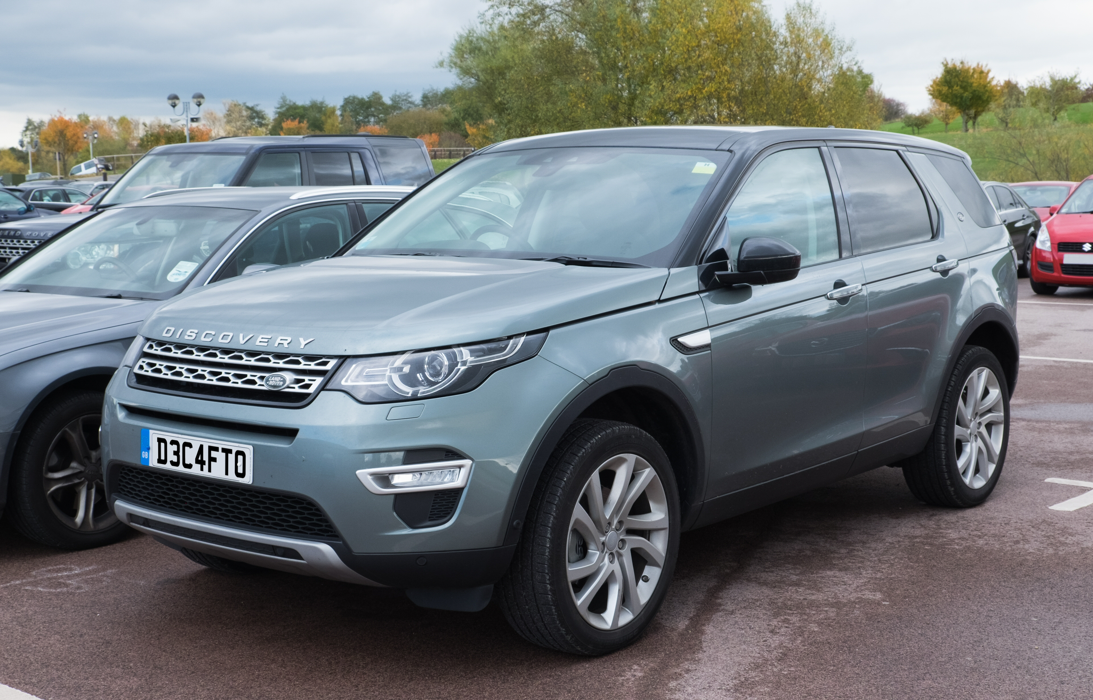 A 2016 Land Rover Discovery Sport HSE Luxury TD4